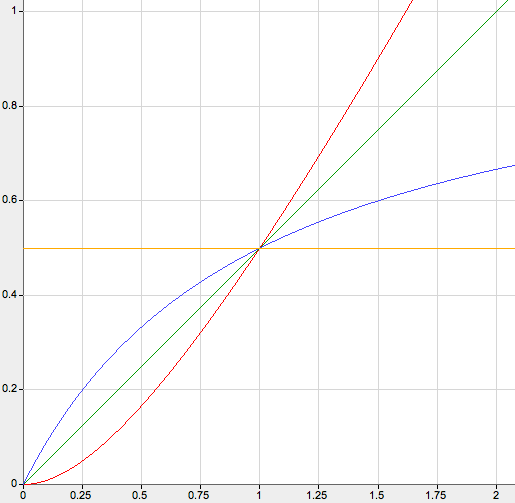 Tax progressivity